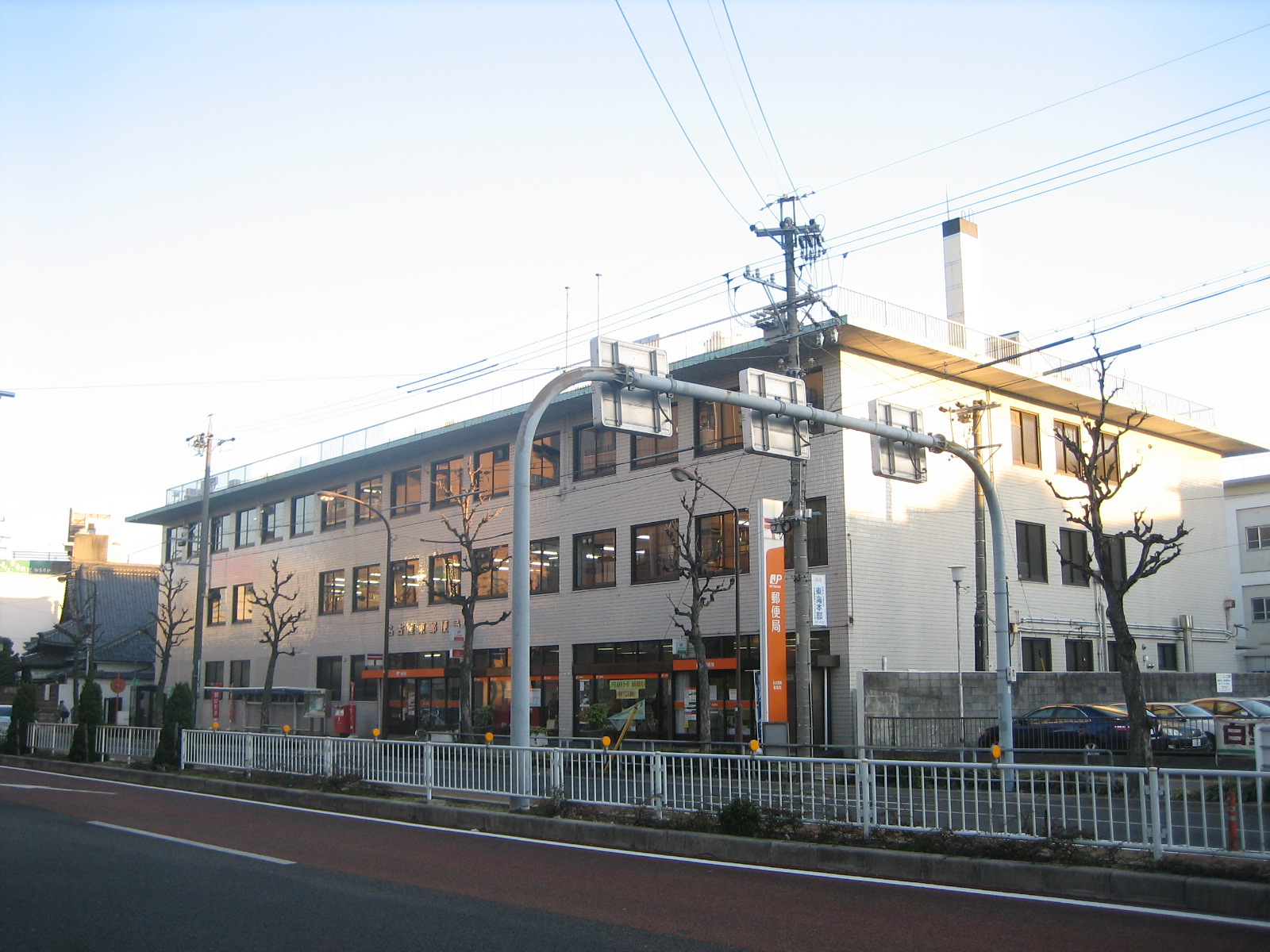 Nagoya-higashi post office in Aichi, Japan